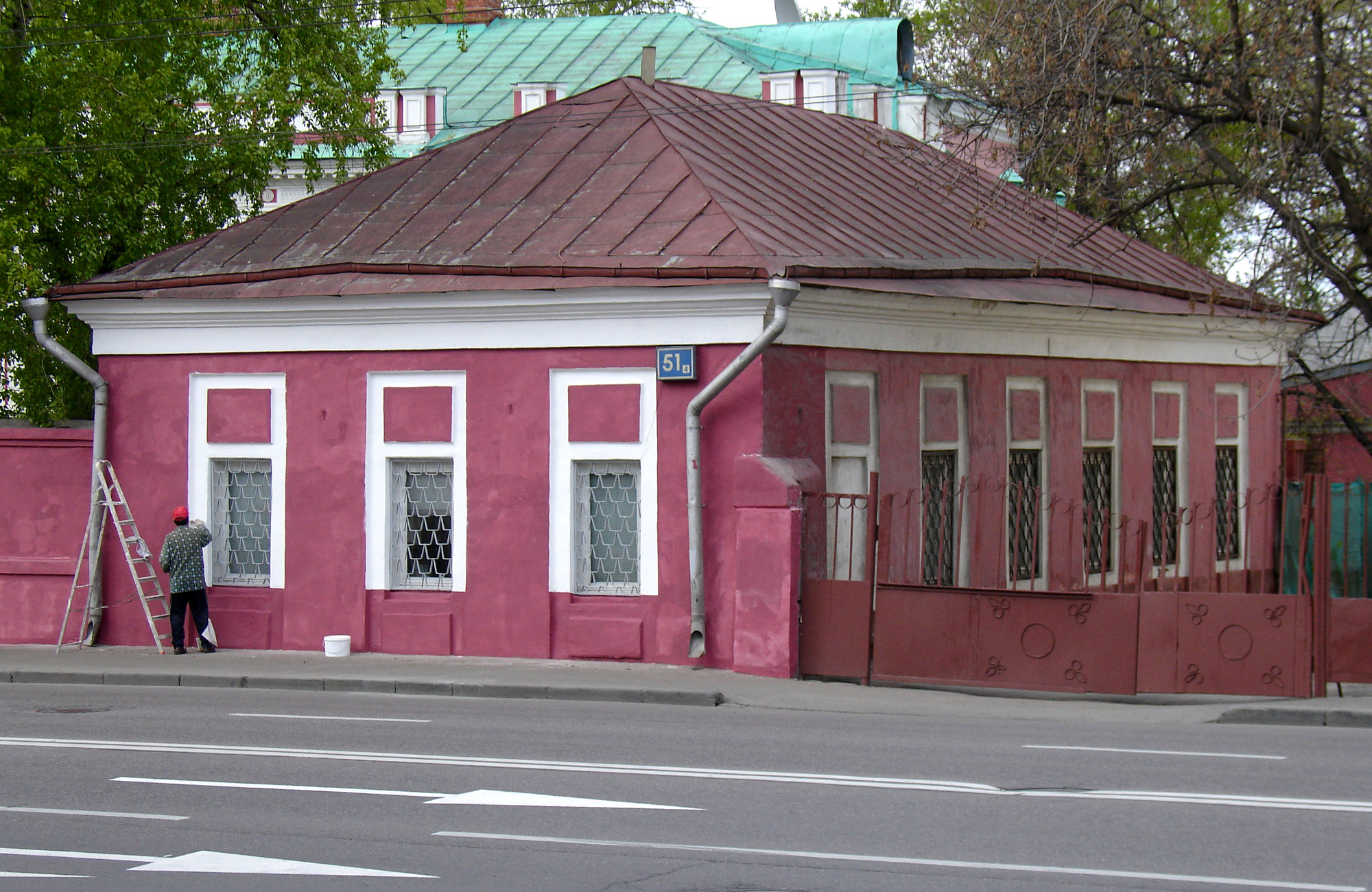 Moscow, Nikoloyamskaya Street.